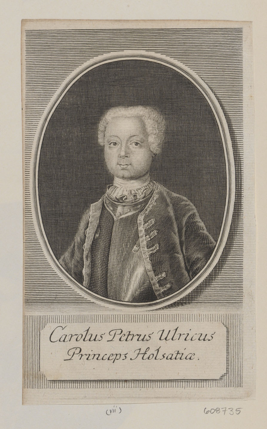 Charles Peter Ulric (Karl Peter Ulrich, became Peter III, Emperor of Russia, Married to the future Catherine the Great; Murdered; Grandson of Friedrich IV, Duke of Holstein-Gottorp)